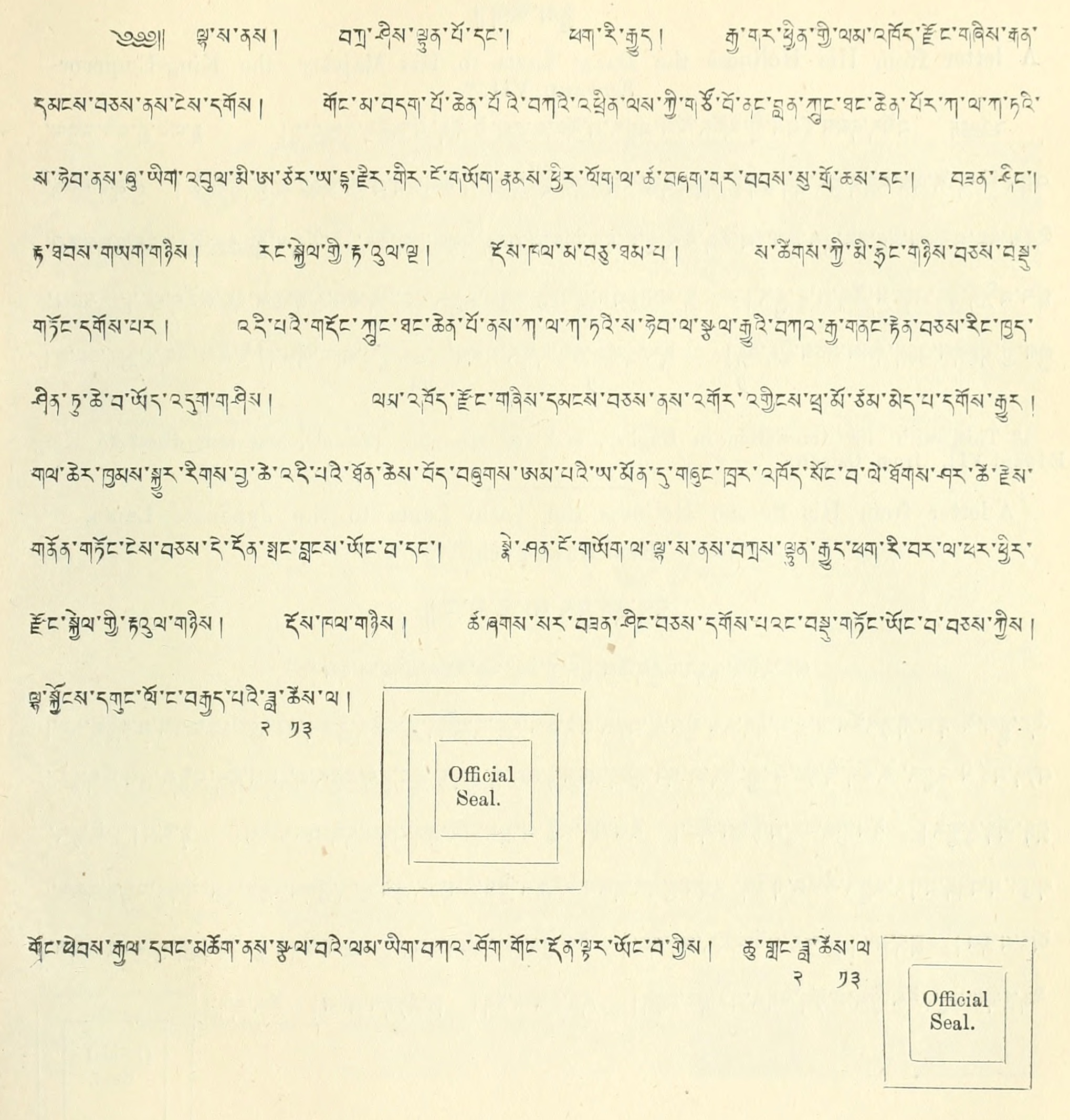 Facsimile of Tibetan Road Bill/Passport issued to Acharya Dharjir-gir in Tibetan calendar Water Ox year (1793 A.D.) by Lhasa government.